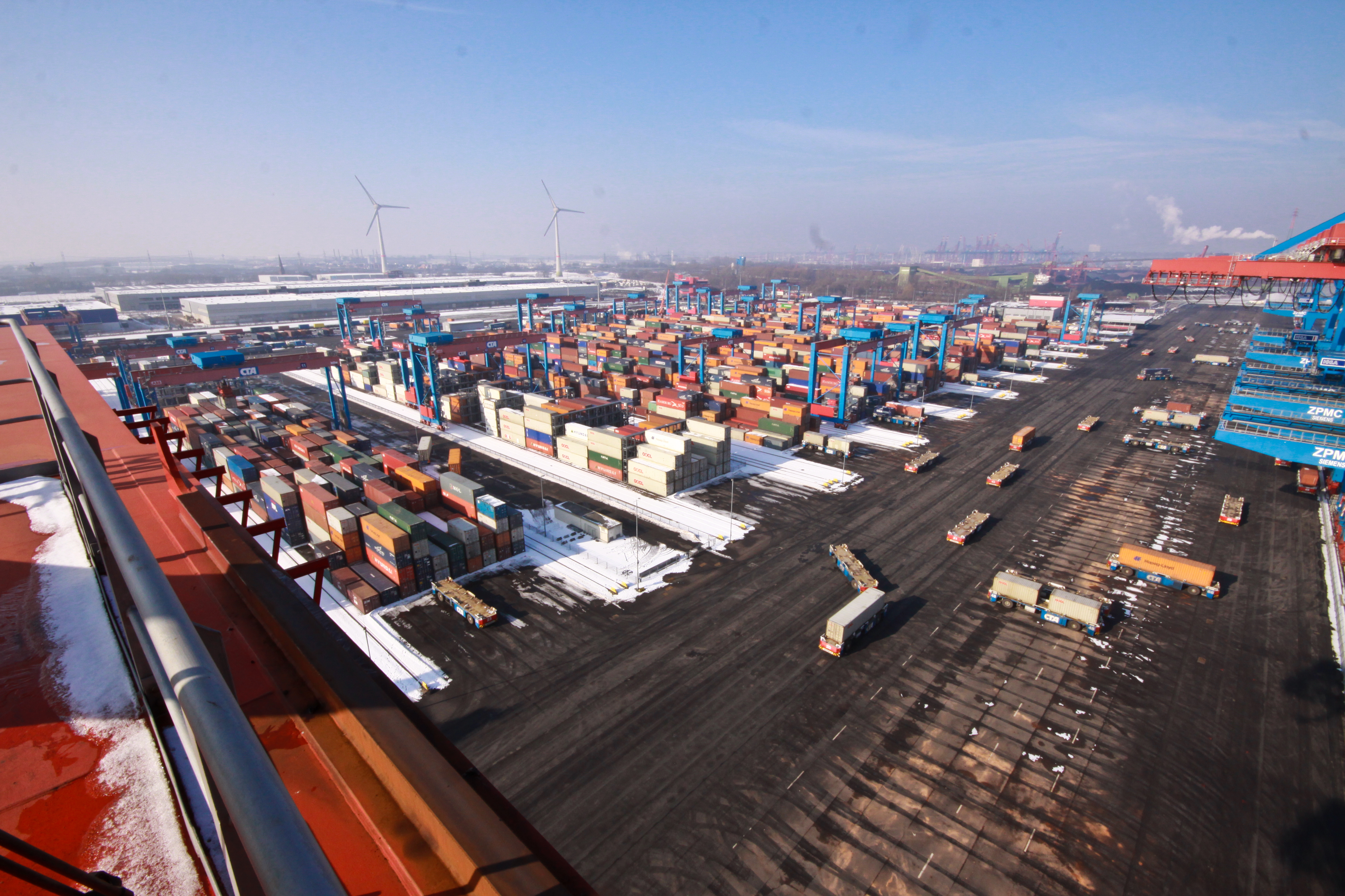 Picture from the top of one of the container bridges of the HHLA Container Terminal Altenwerder (CTA) in Hamburg. You can see the Blocklager and the AGVs.